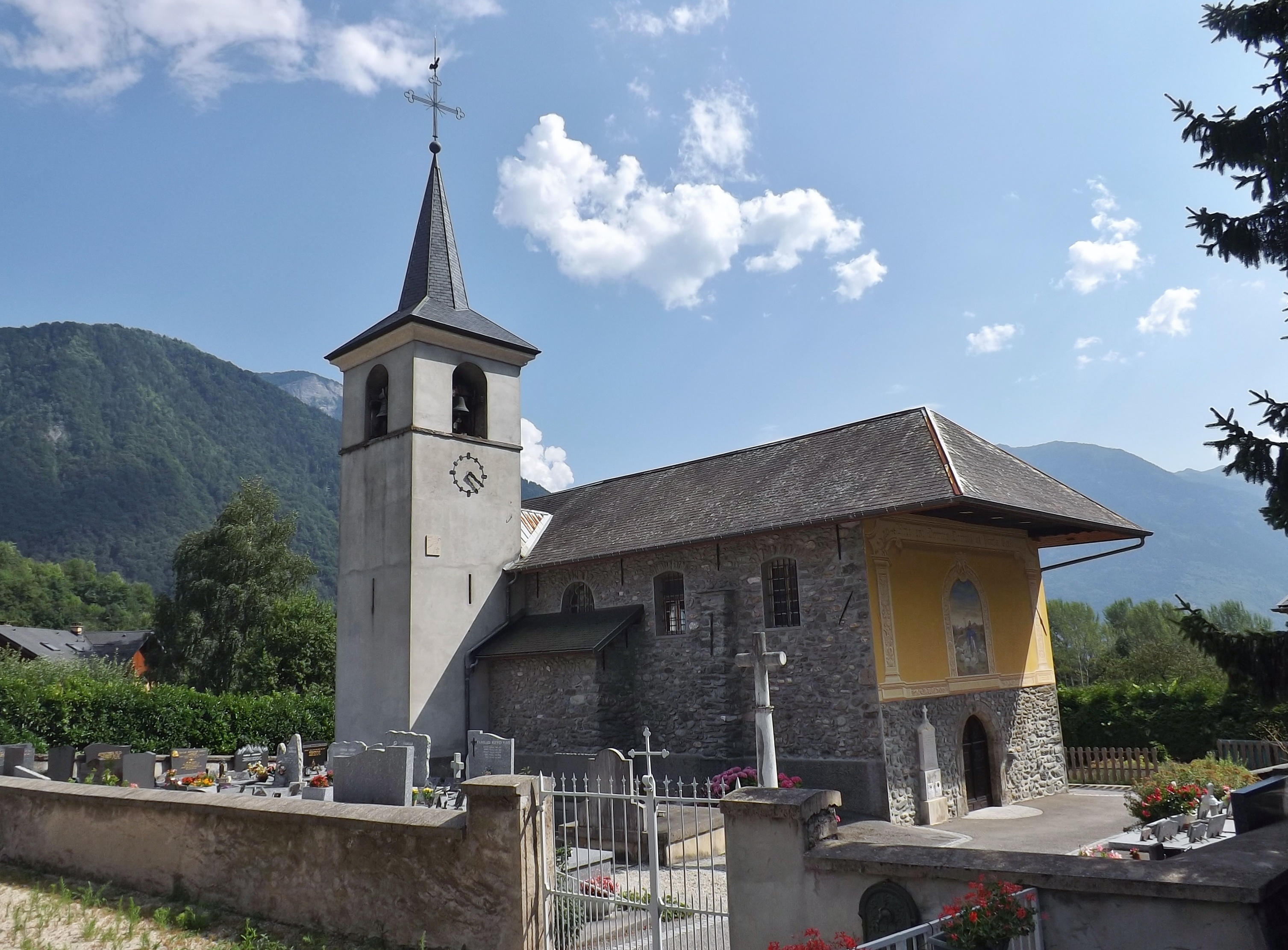 Sight of the French commune of Notre-Dame-du-Cruet church (and graveyard), in the Maurienne valley, in Savoie.